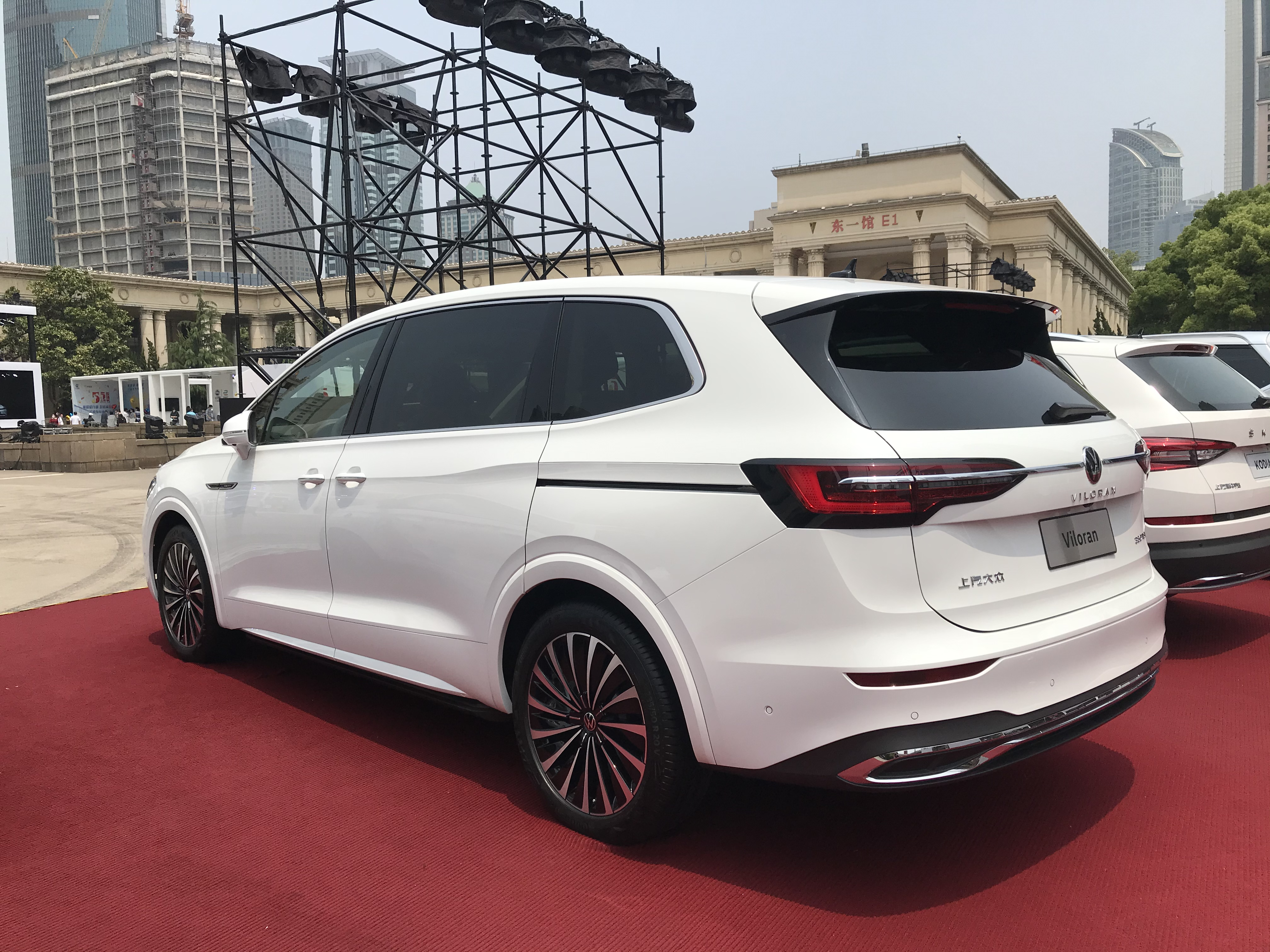 Volkswagen Viloran